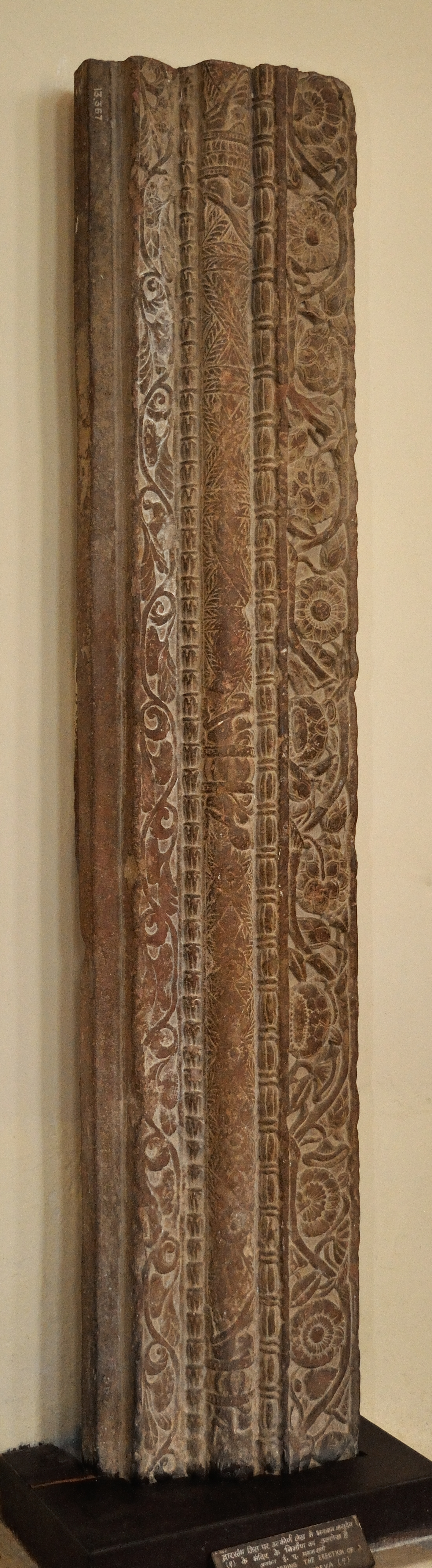 "Vasu doorjamb", Government Mathura Museum GMM 13.367 [1]. This artefact resides at the Government Museum, (hi: Rashtriya Sangrahalaya) formerly The Curzon Museum of Archaeology, Museum Road or Murari Lal Rajpal road, Dampier Nagar, Mathura, Uttar Pradesh, India. This museum is administrating by the State Government of Uttar Pradesh of India.